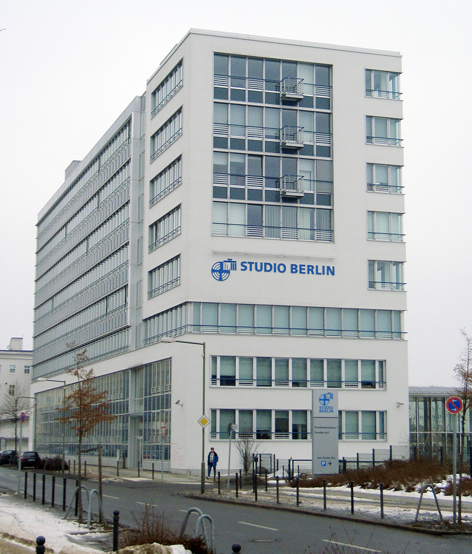 Building of Studio Berlin. It was part of the tv center of the former east german television.